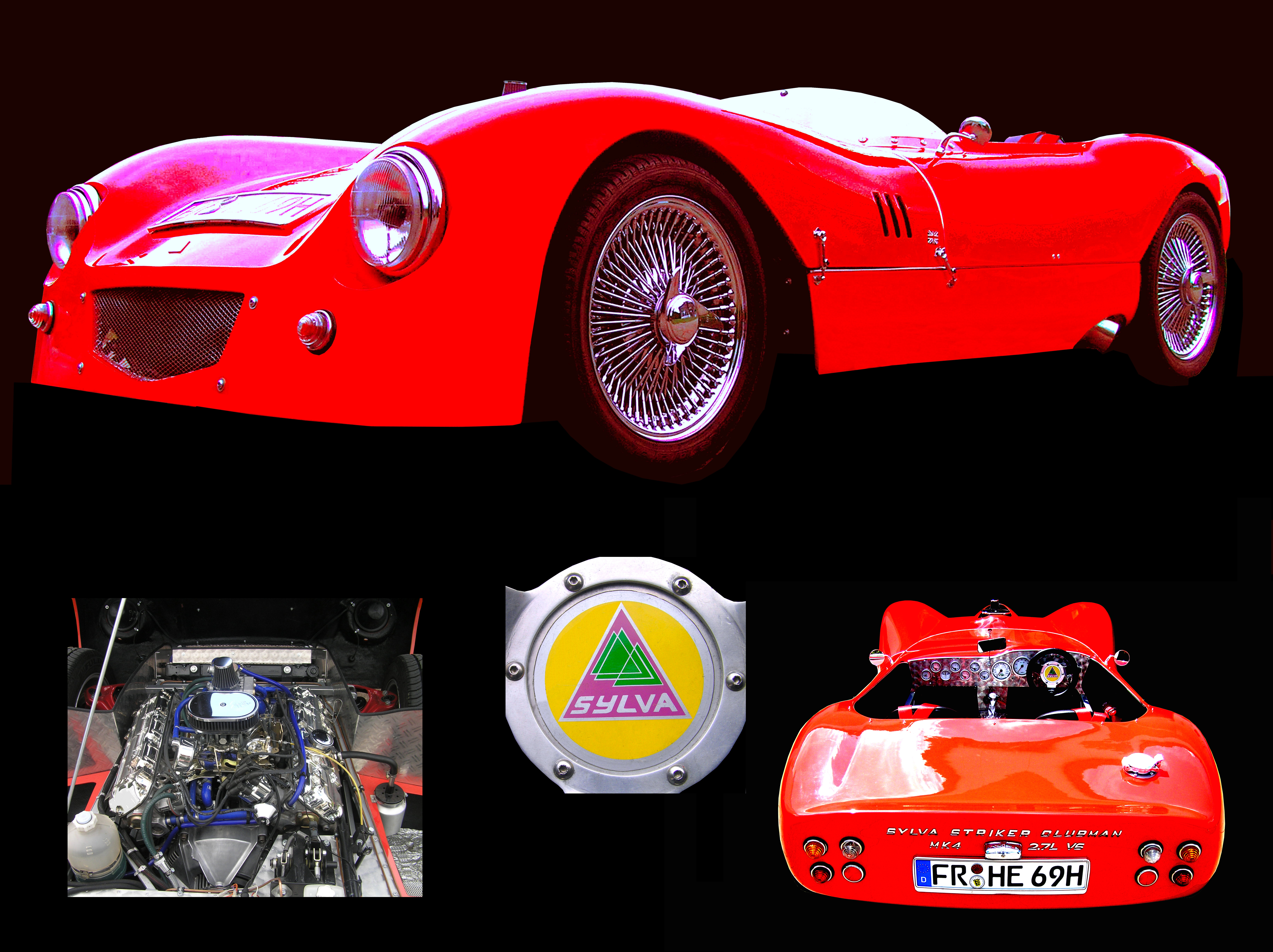 Sylva Striker MK4 Clubman, 1. of 2. built work prototypes. Picture shows the vehicle after 4-year-old restoration duration in 2010.